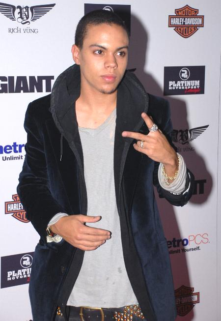 Evan Ross, son of Diana Ross, American actor and entertainer.